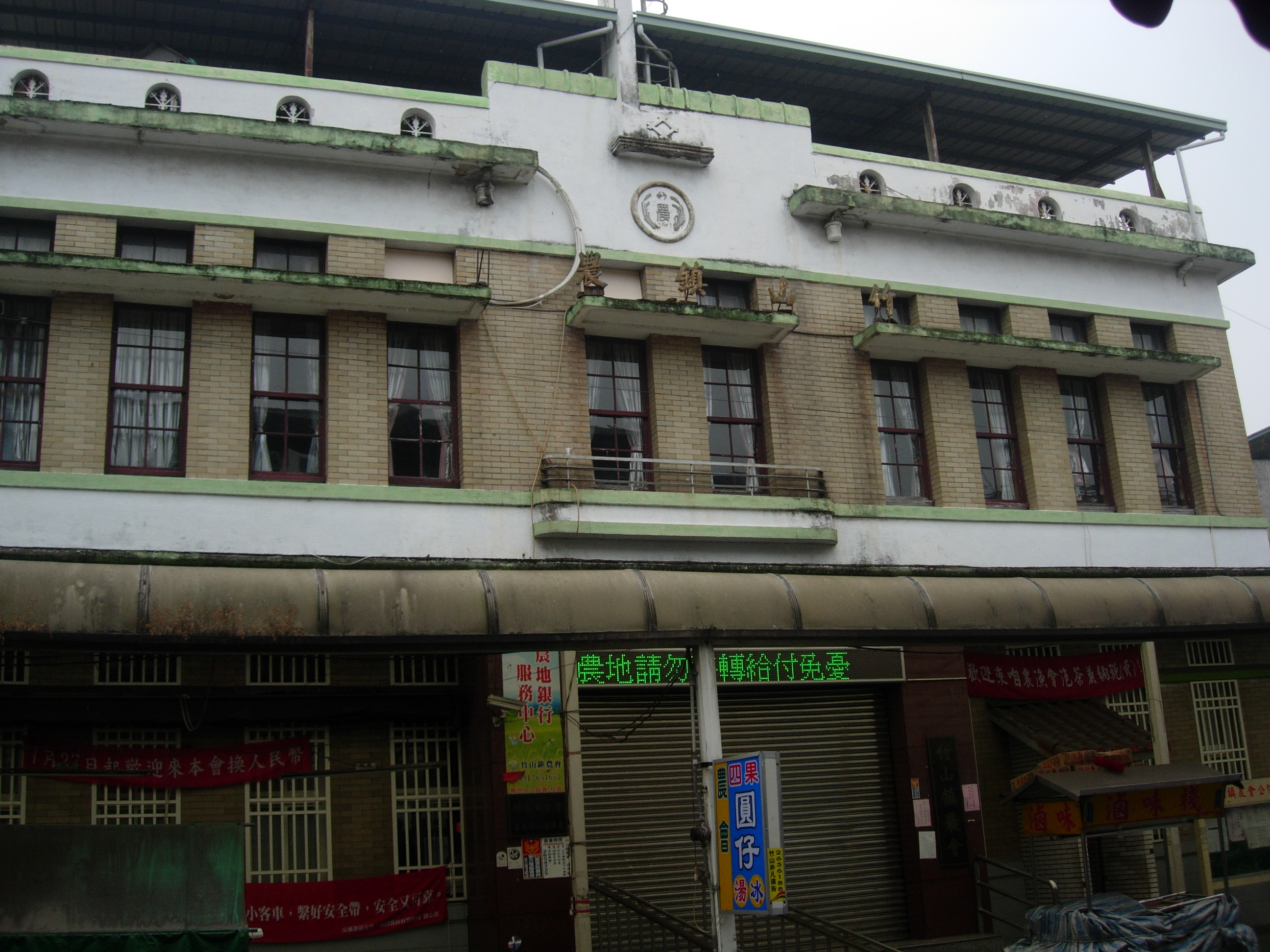 Chushan farmer association中文（台灣）: 竹山鎮農會